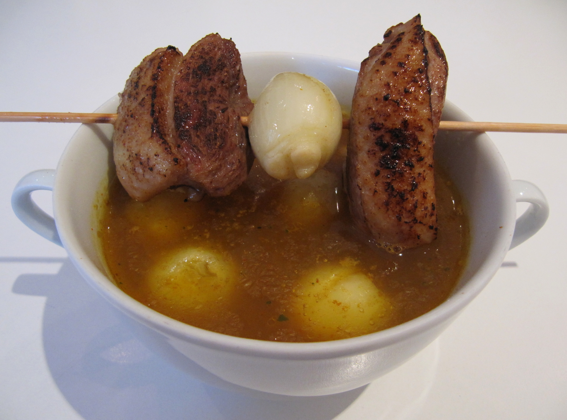 Mulligatawny soup according to the recipes published in 1828 and reprinted in 1868 with roasted duck as fowl and small fried onions added to the soup before serving.